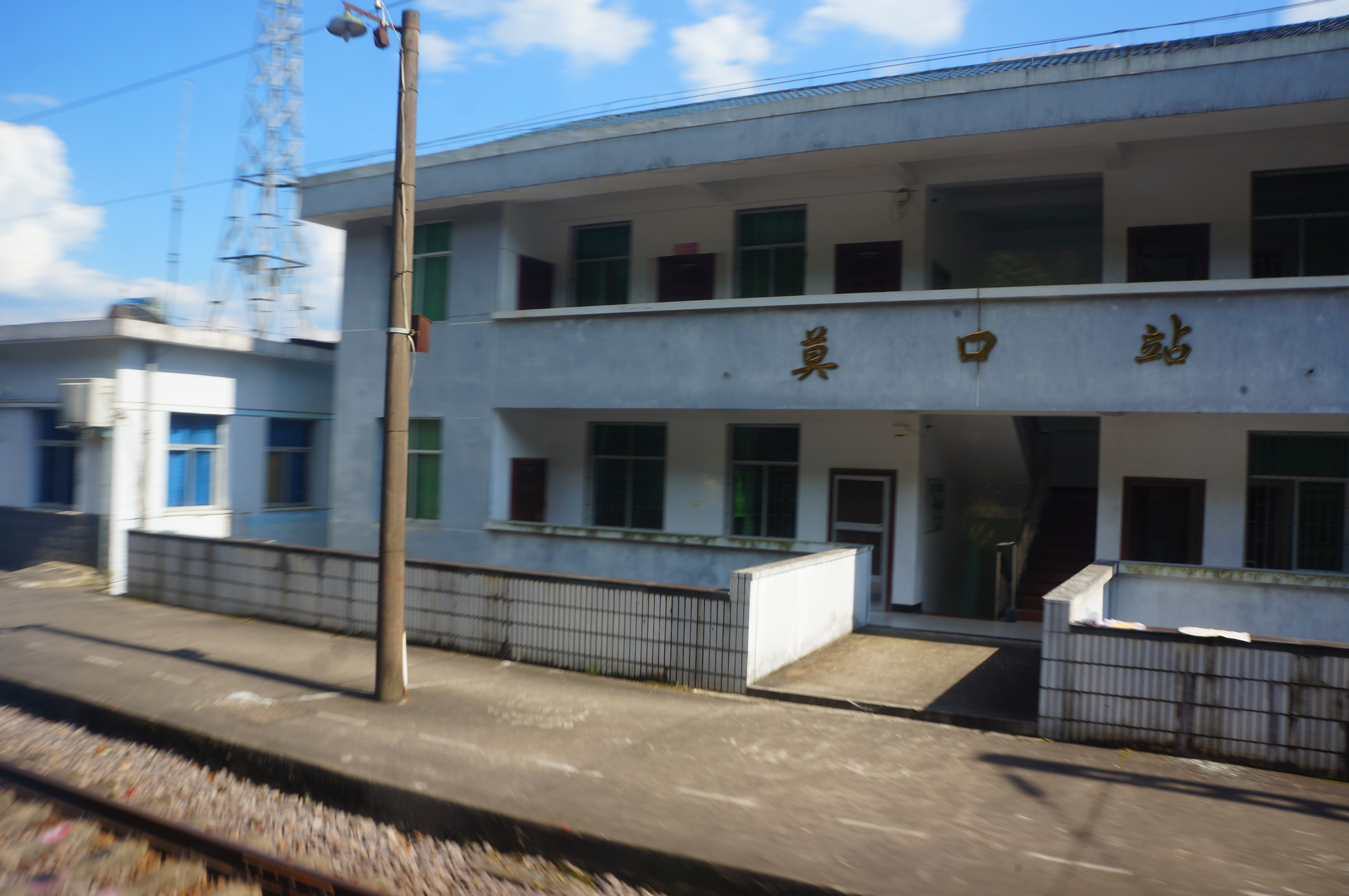 201806 Station Building of Mokou Station